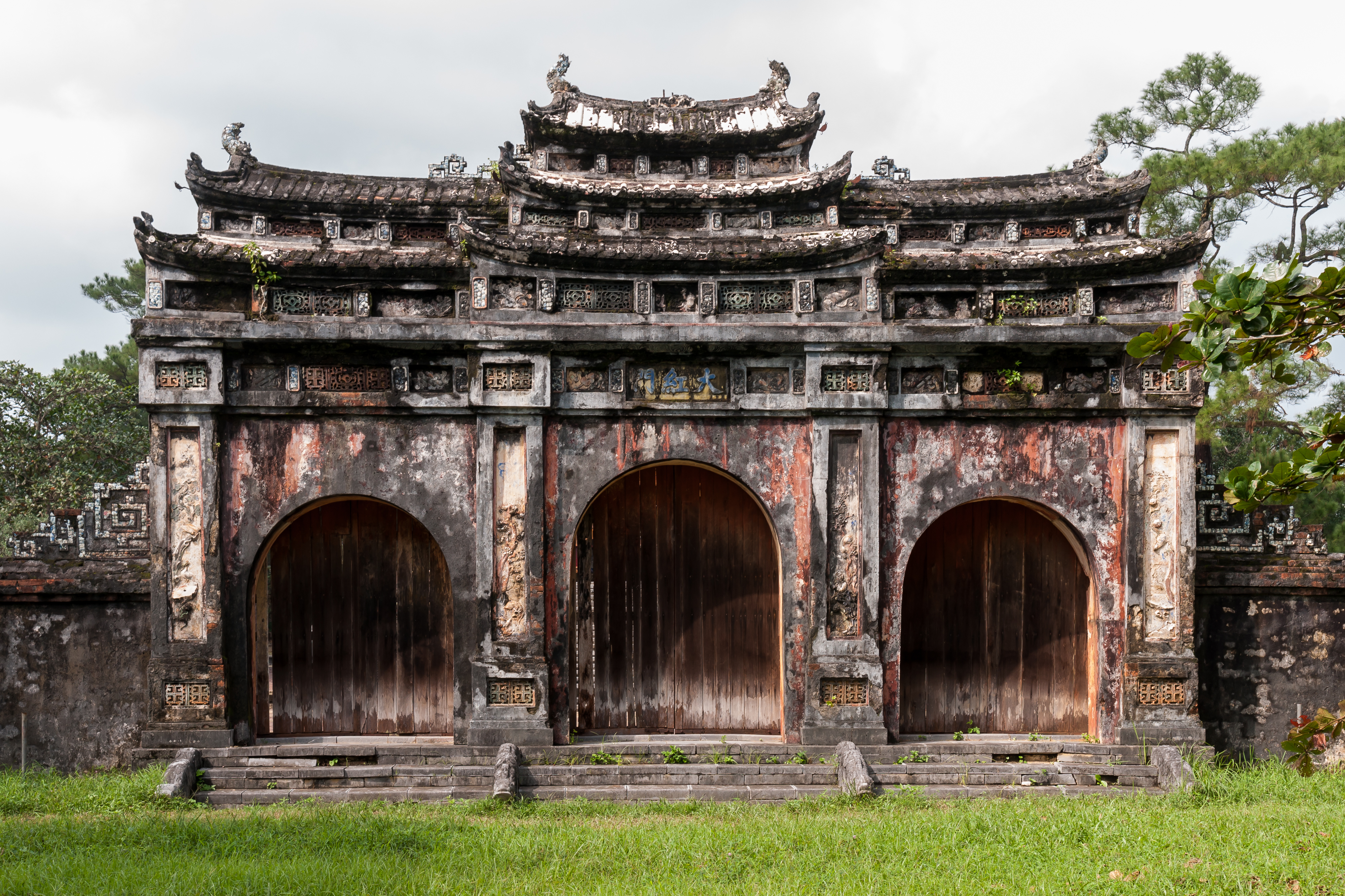 Hue, Vietnam: Đại Hồng Môn, a gate to the compound of Emperor Minh Mang's tomb in Hương Thọ, Huong Tra District, Thừa Thiên-Huế, Vietnam